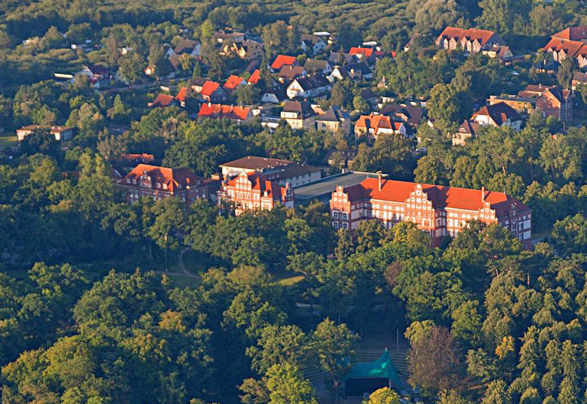 Buildings of Neue Artilleriekaserne (english: New artillery barracks) in Schwerin in Mecklenburg-Vorpommern, Germany. Part of an aerial view.